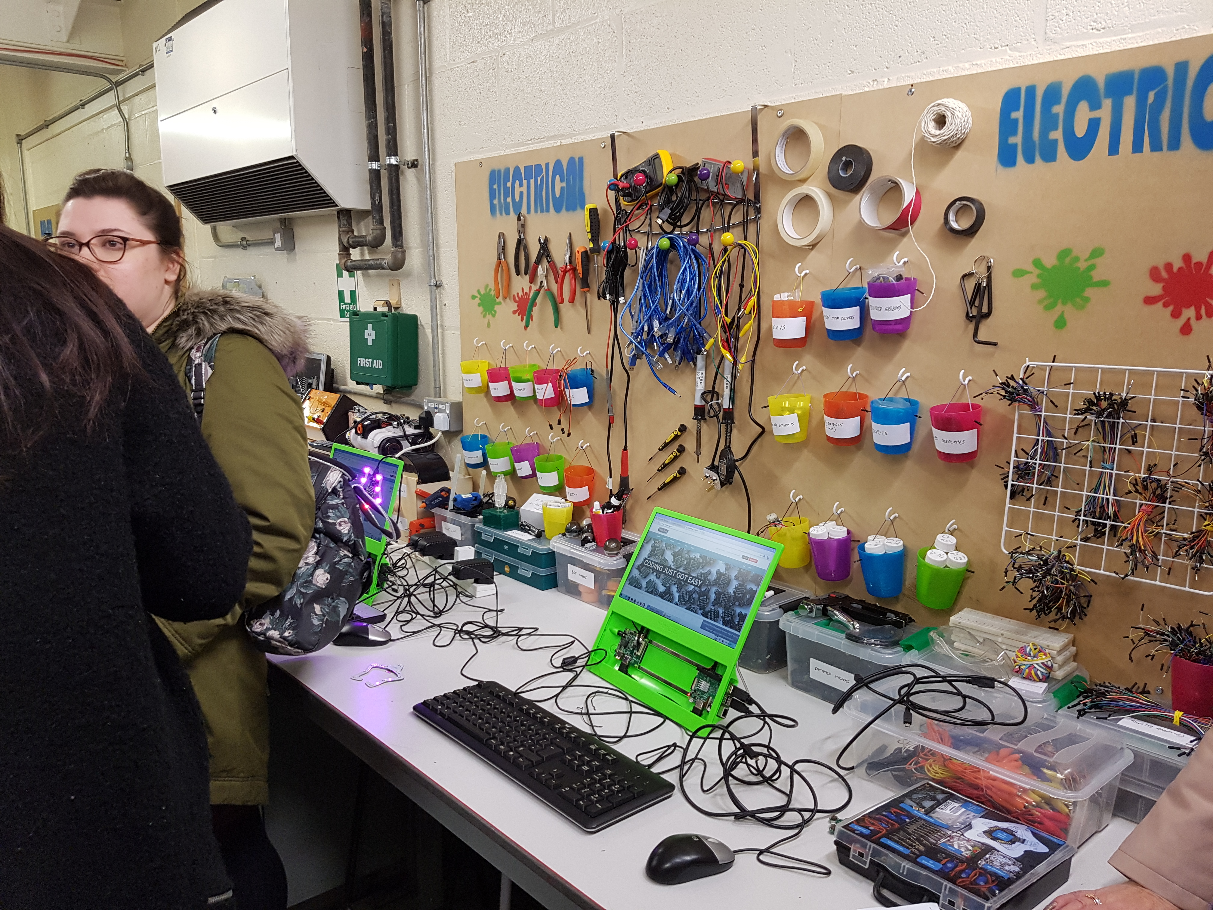 Opening Night Space